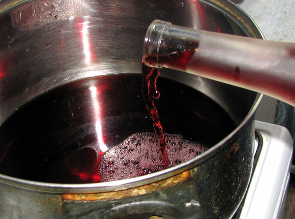 Mulled wine